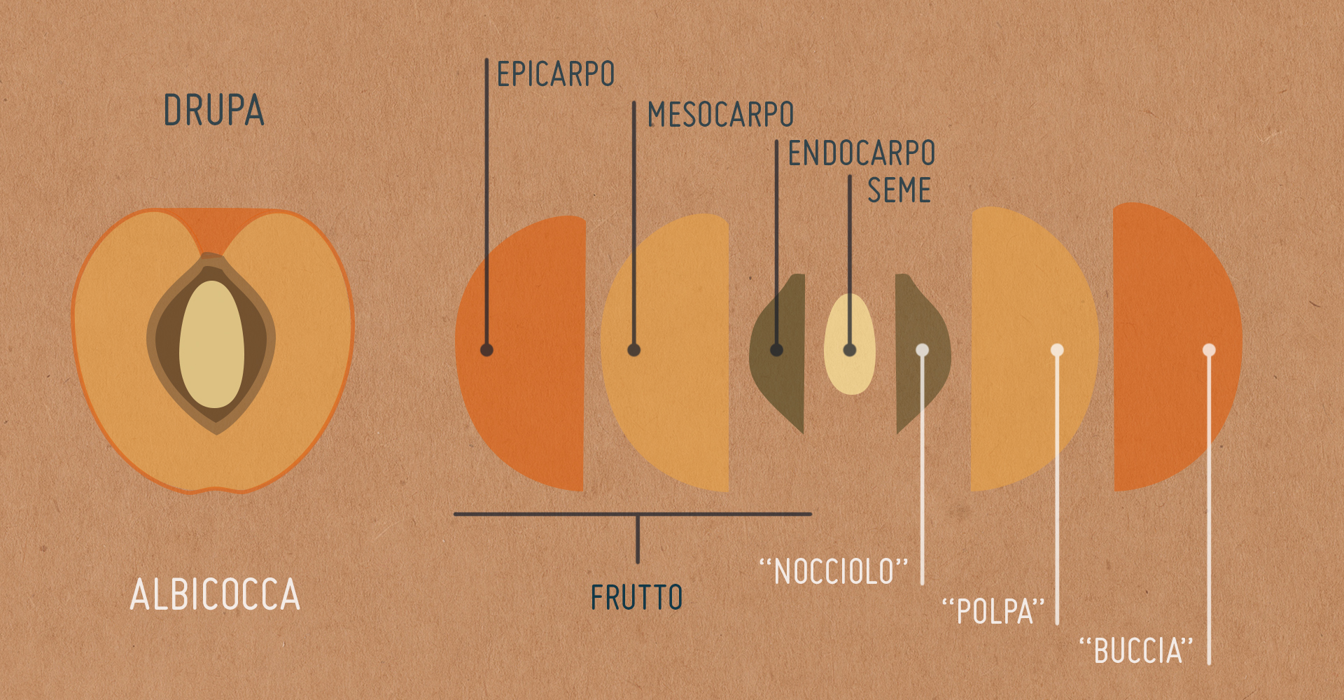 Drupe diagram: distinction between seed and fruit